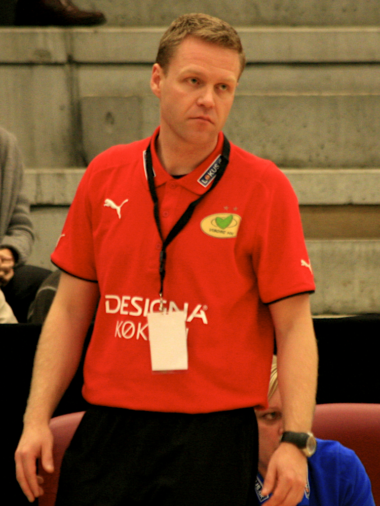 Jakob Vestergaard, coach for Viborg HK.